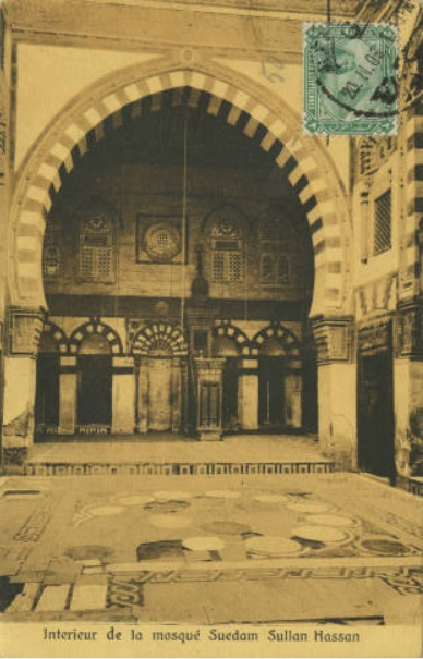 Postcard showing the interior of the Sultan Qaytbay mosque-madrasa, in the Northern Cemetery